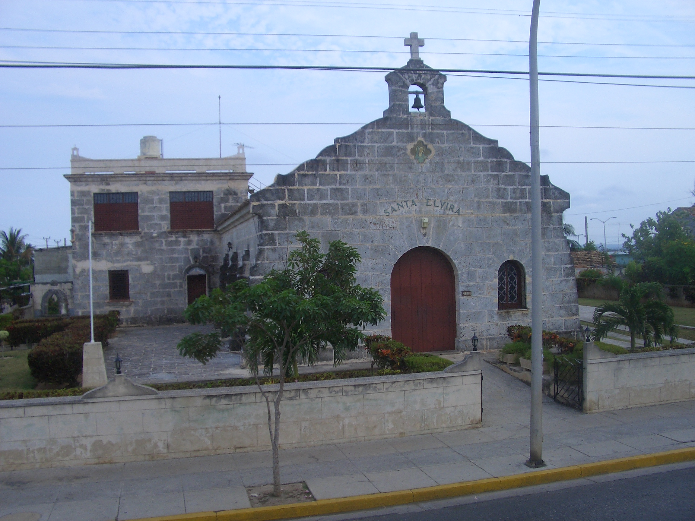 Catholic church in Varadero